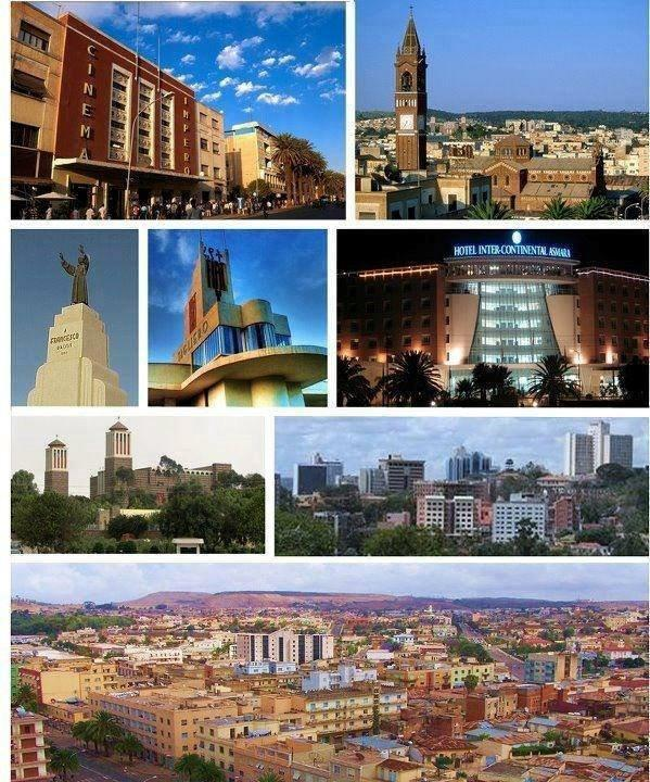 image of a picture collage of Asmara, Eritrea